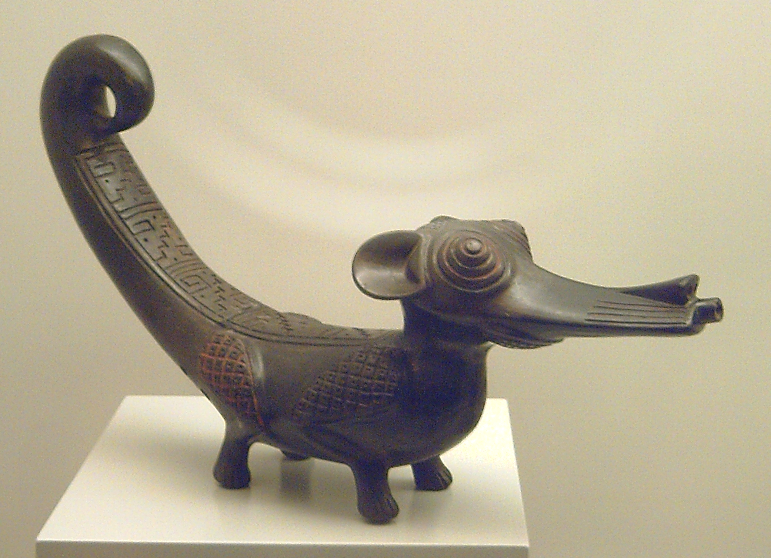 A Chimú–Inca ceramic container from the Late Horizon representing a caiman (according to the museum's caption), or maybe a coati.